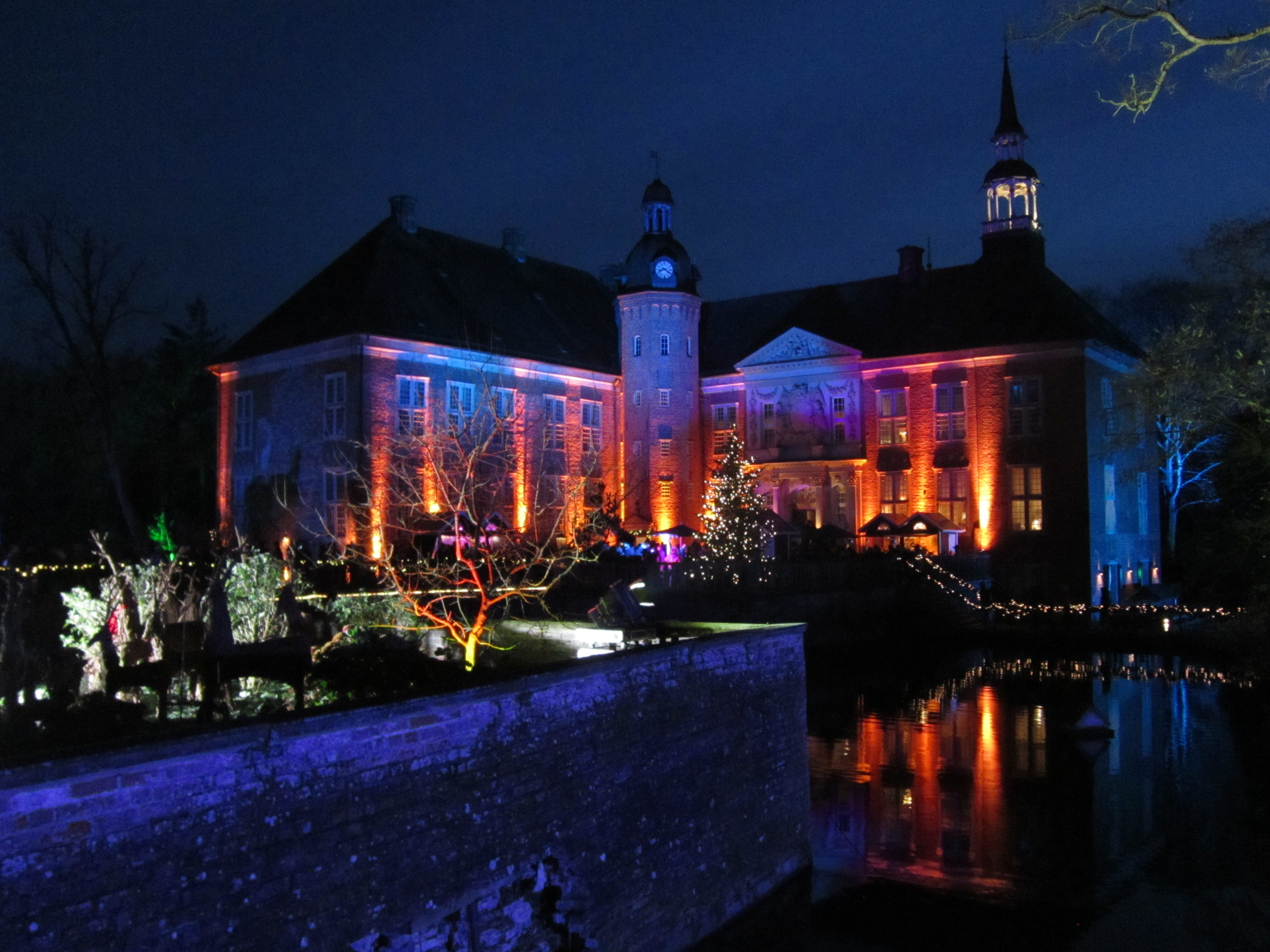 Gödens Castle in the advent time